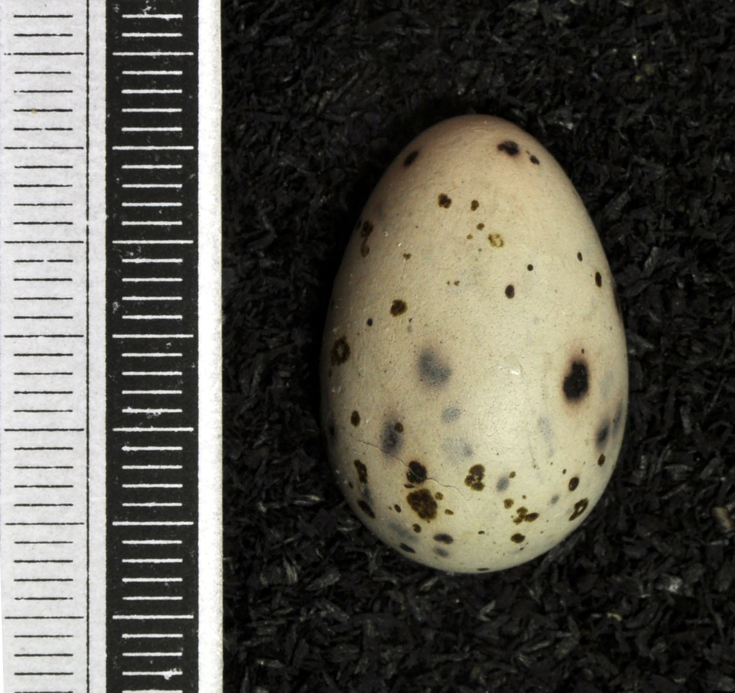 Bohemian waxwing Bombycilla garrulus , egg, Coll. Museum Wiesbaden